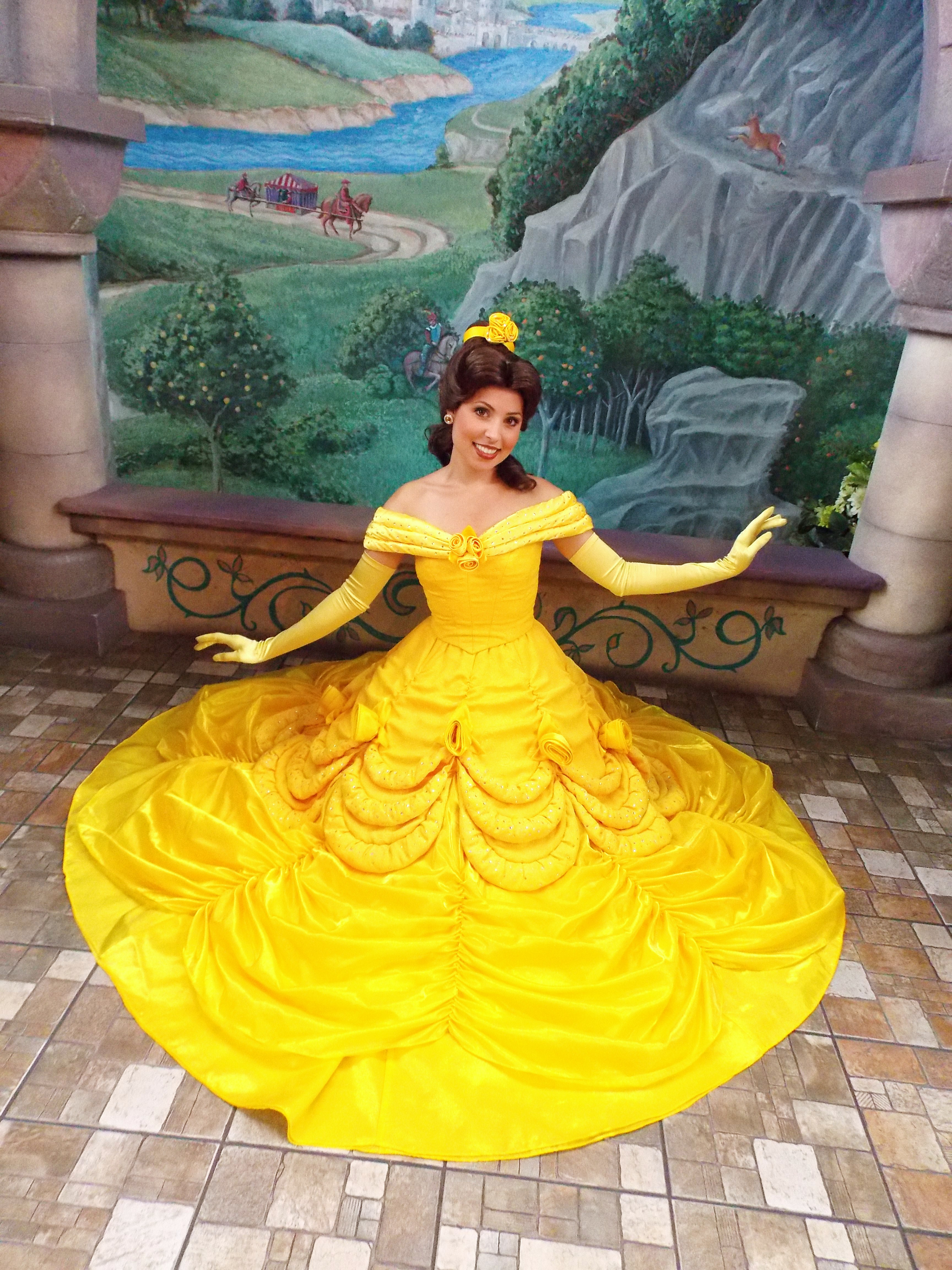 Actress as Belle at Disneyland.